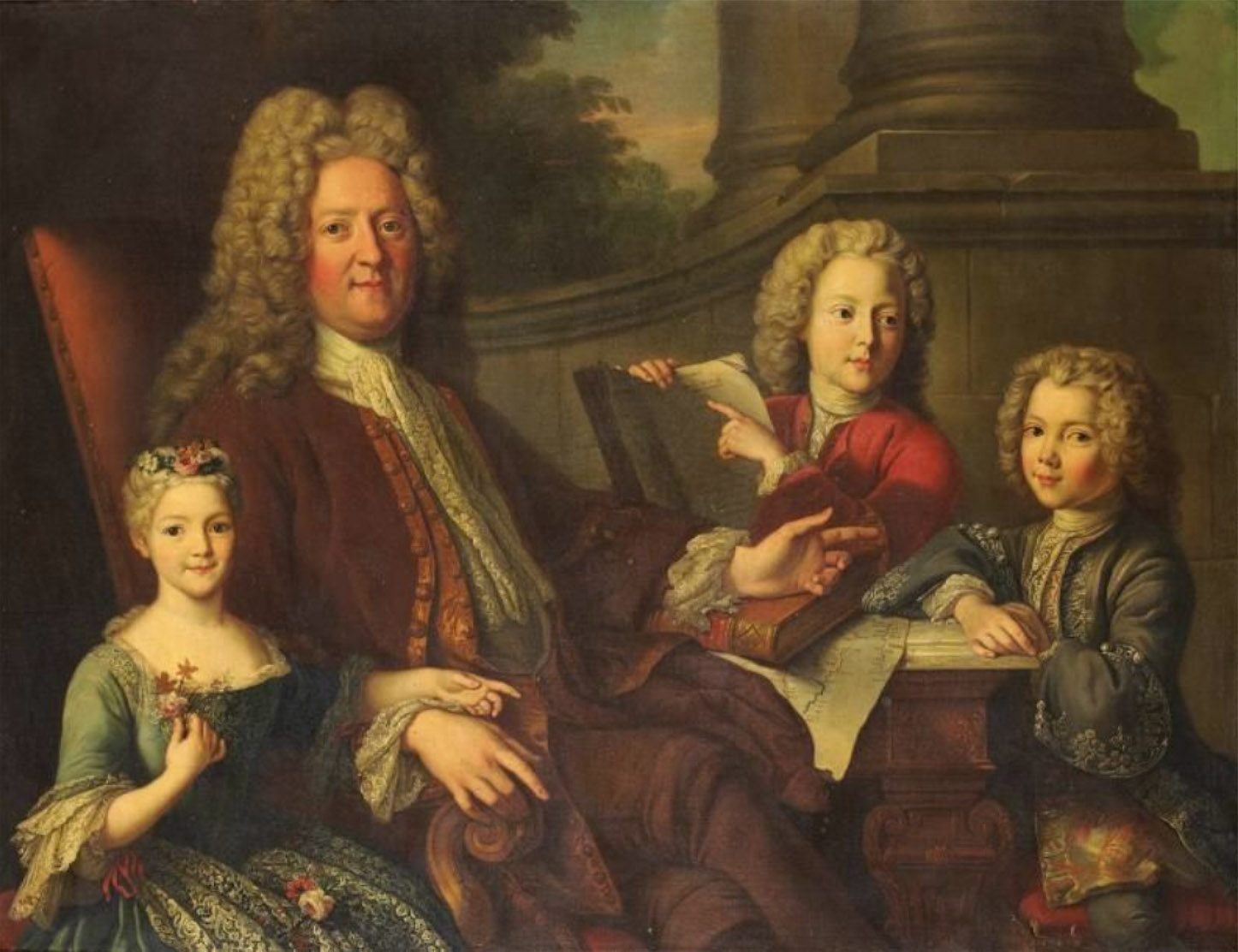 Presumed portrait showing Louis Auguste, Duke of Maine (1670-1736) with his two surviving sons and only surviving daughter